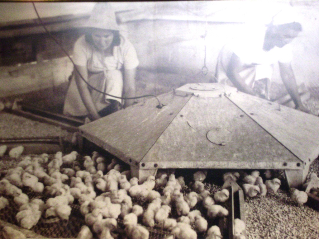 Pioneers help chicks to enter the "nunny\" coop to keep them warm.